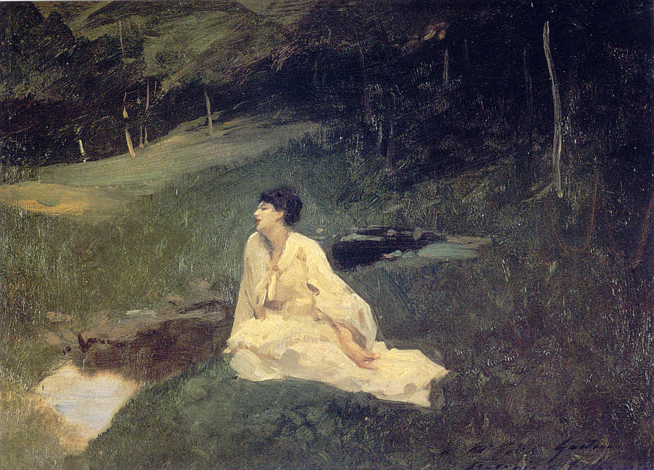 Melle Judith Gautier à la Fourberie, c. 1883-1885 Musée Jean Faure, Aix-les-Bains, France Oil on panel, 31.4 x 41.3 cm (12 1/8 x 16 1/4 in.)